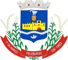 Coat of arms of the city of Felizburgo, Minas Gerais, Brazil.